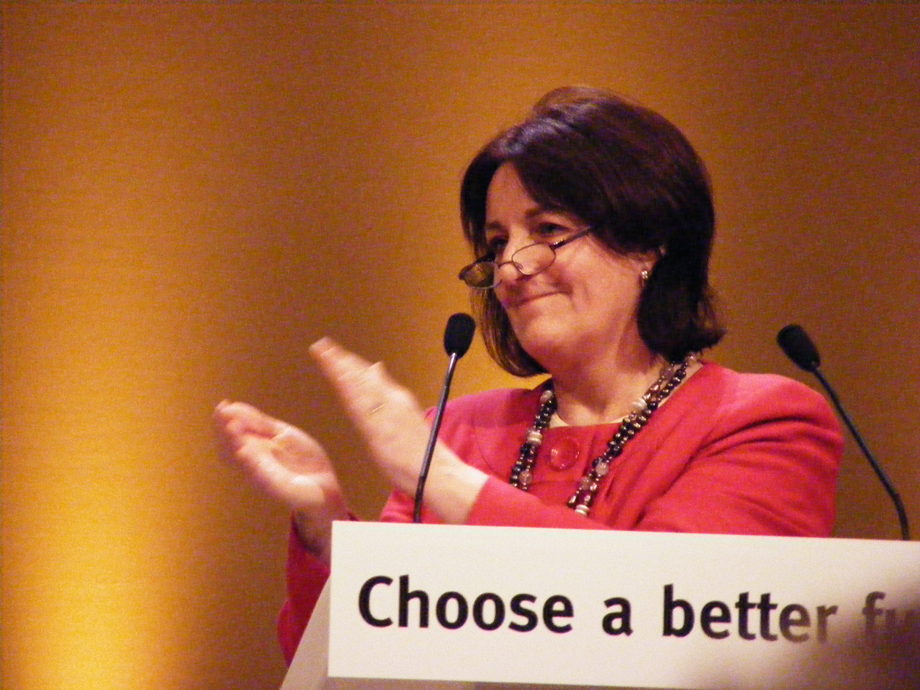 Rosalind Scott, Baroness Scott of Needham Market, President of the Liberal Democrats and a member of the House of Lords